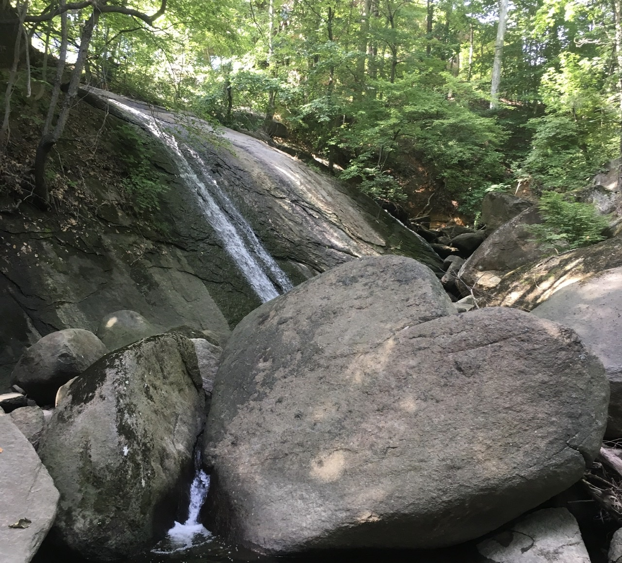 Eagle Falls - waterfall near Bellevue Lake in Northern New Castle County Delaware